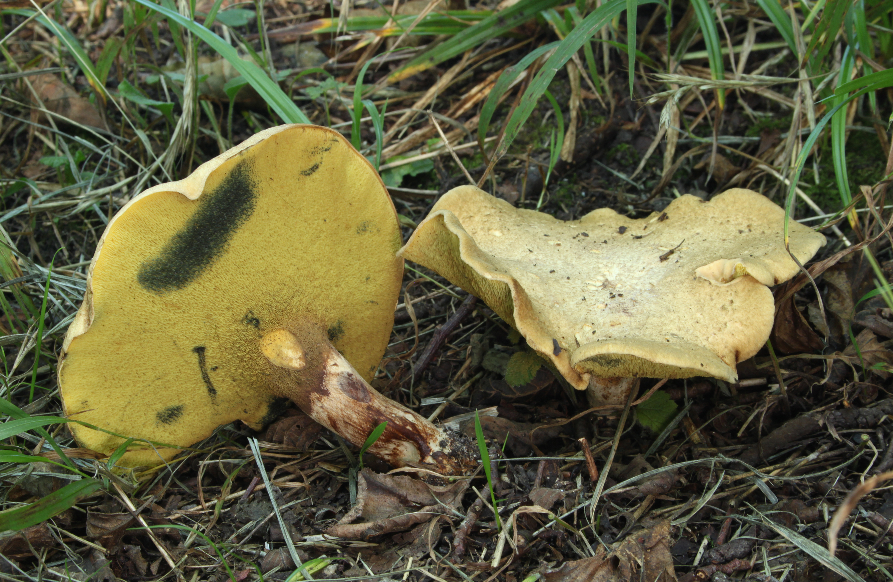 Gyrodon lividus, Family: Paxillaceae, Location: Germany, Biberach a.d. Riss. Area geotagging because very rare species.